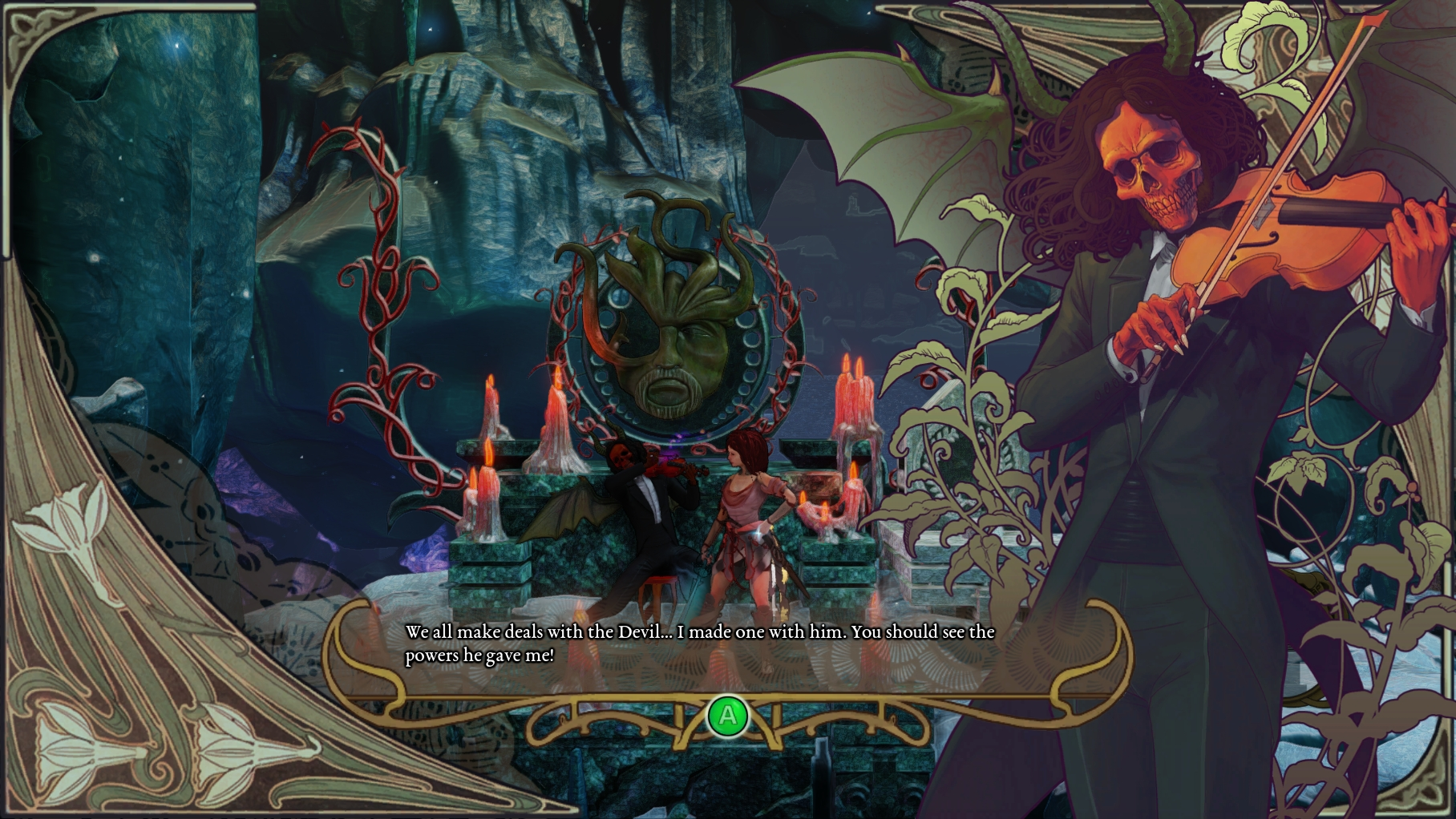 Abyss Odyssey screenshot. Released in 2014, the game was developed by ACE Team and is powered by Unreal Engine 3.